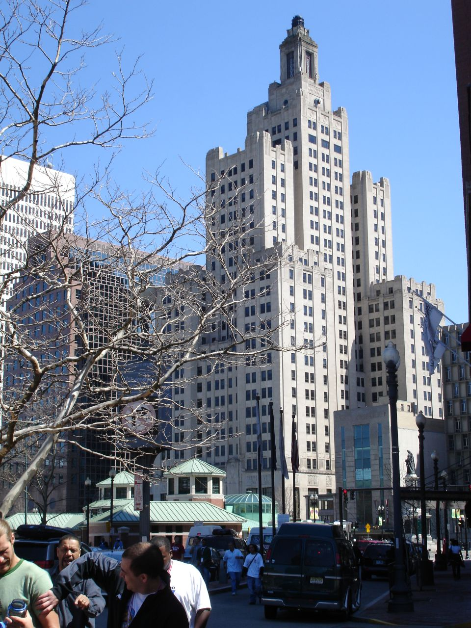 Bank of America Tower in Providence, Rhode Island, 2005.